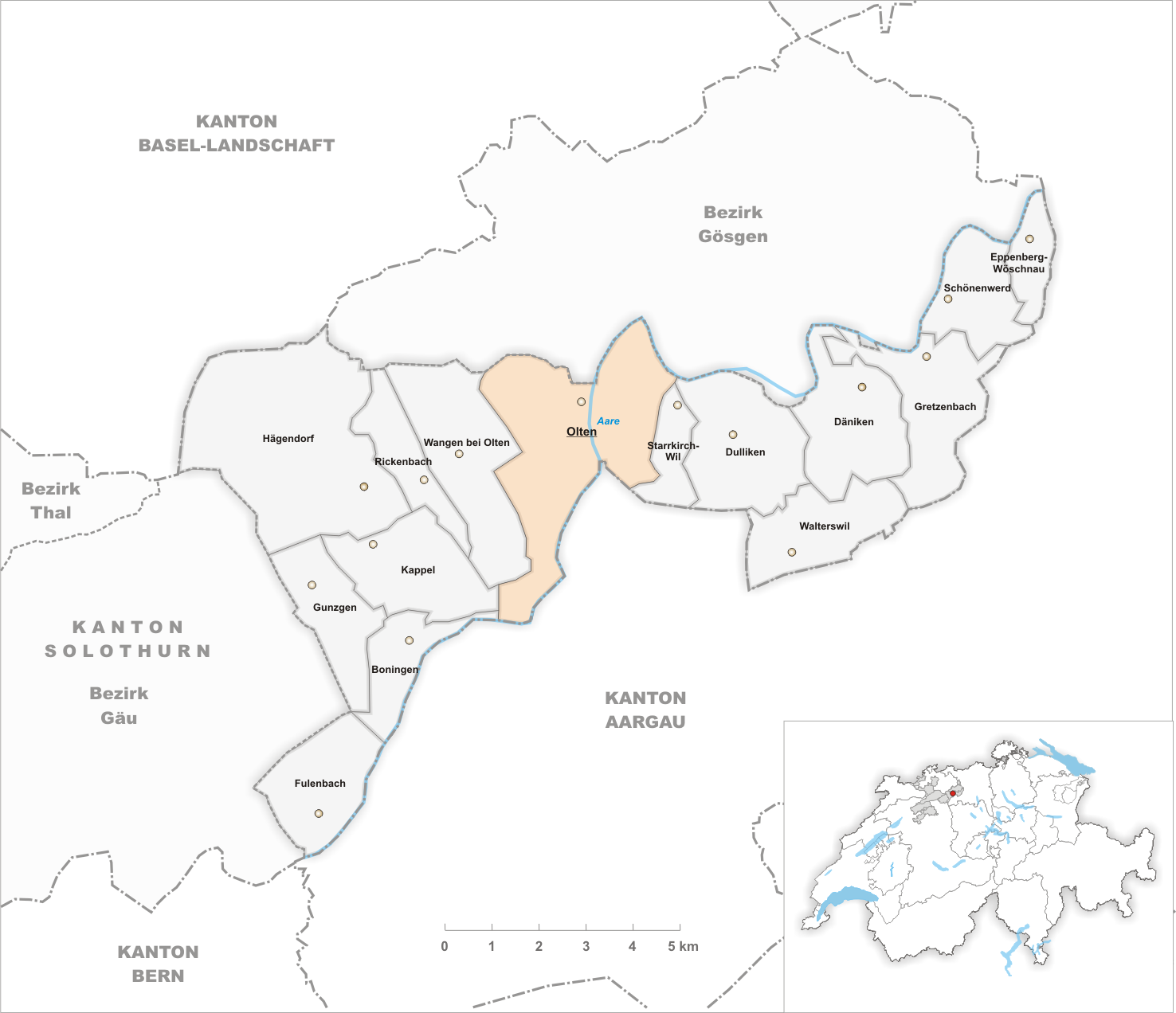 Municipality Olten